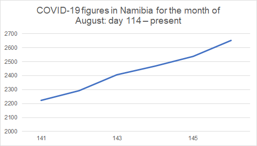 A graph showing the number of COVID-19 cases in Namibia for the month of August 2020. Day 141 represents the 1st of August - as of 6 August.